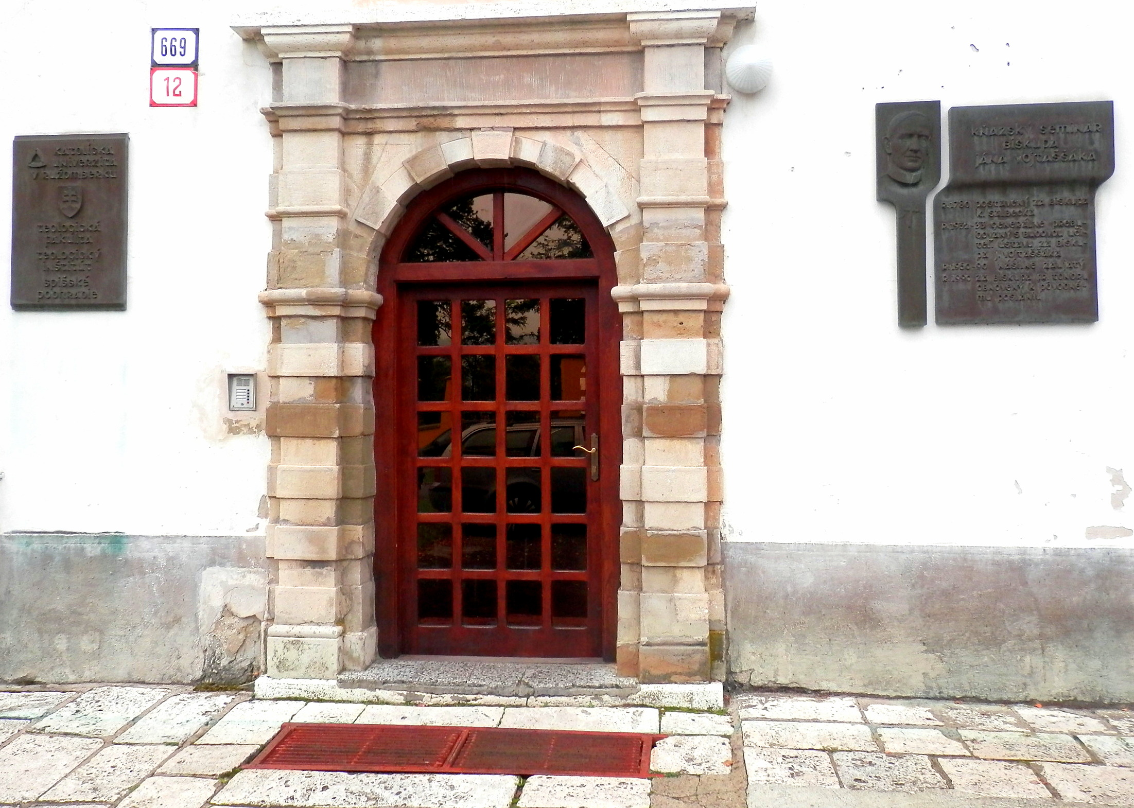 Priečelie vchodu.Kňazský seminár. Doba vzniku v roku 1647. Spišská Kapitula-Spišské Podhradie.